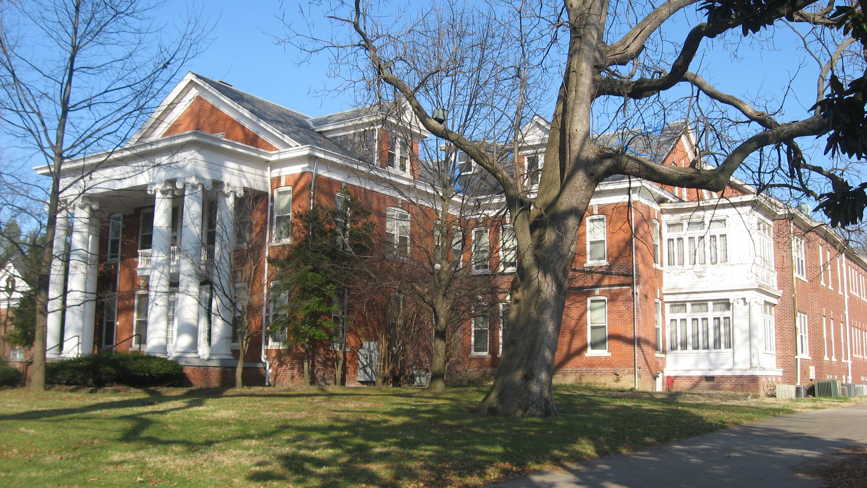 Front and southern side of the Rathbone Home, a nursing home located at 1320 Second Street in Evansville, Indiana, United States. Built in 1905, it is the most prominent building in the Culver Historic District, a historic district that is listed on the National Register of Historic Places.